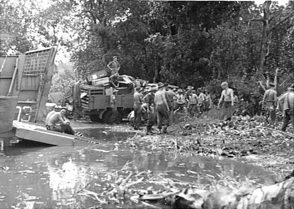 Troops of the 12th Field Company, unloading their equipment at the beach-head in the Wunung plantation area